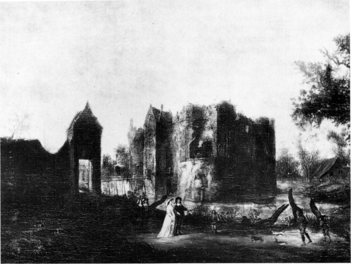 Ruin of Ammersoyen Castle, detail. Oil on canvas (?). Location unknown.